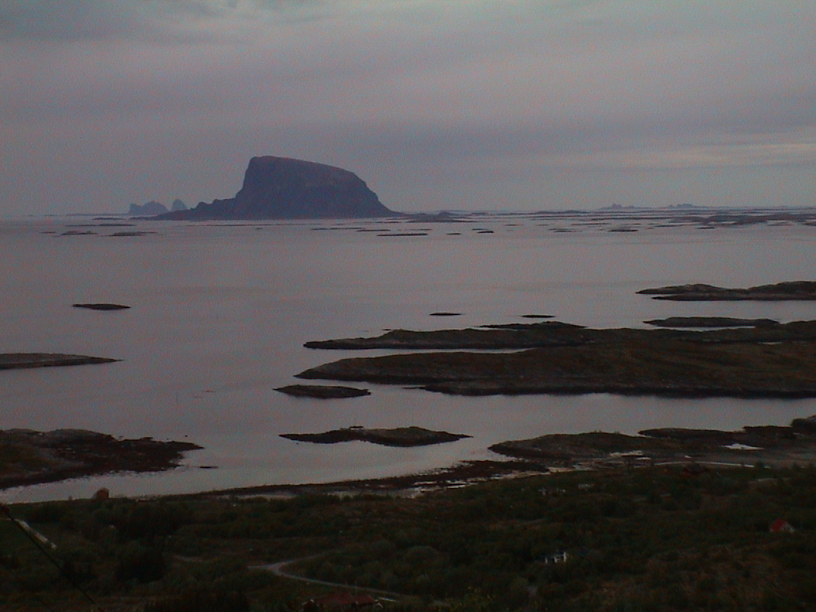 Lovund (Lurøy, Nordland, Norway) seen from Dønnamannen. Photo: Guttorm Raknes (drguttorm), May 31st, 2003.